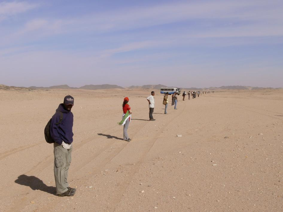 Students and staff of the University of Khartoum comb the Nubian Desert looking for meteorites, in a line more than half a mile long. December 2008, Sudan.